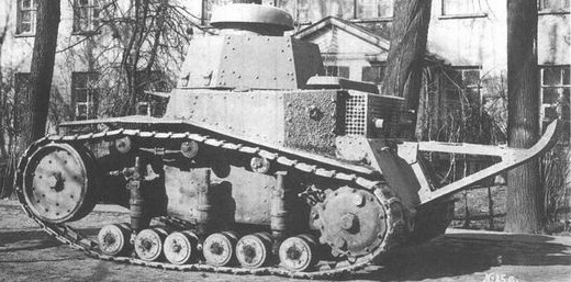 T-16 (T-18 tank early prototype) at the Bolshevik plant